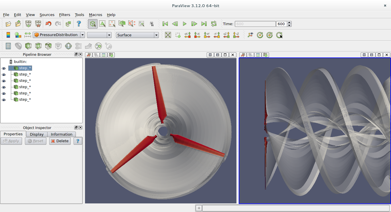 Screenshot of Paraview showing simulation results generated using Vortexje